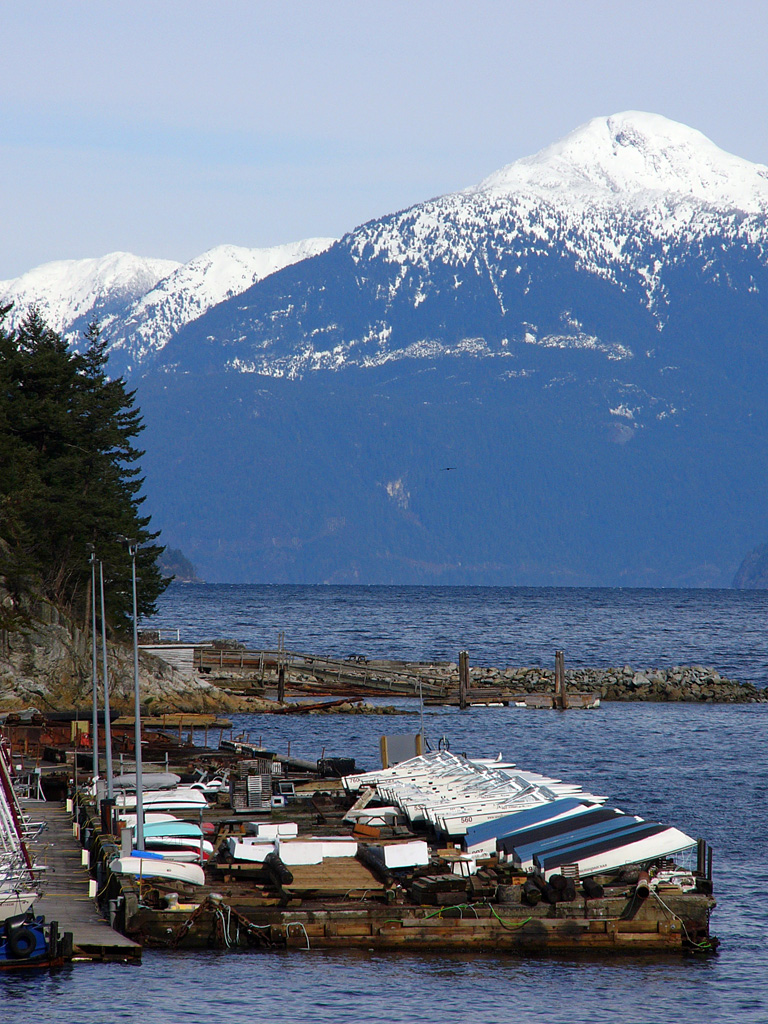 Horseshoe_Bay